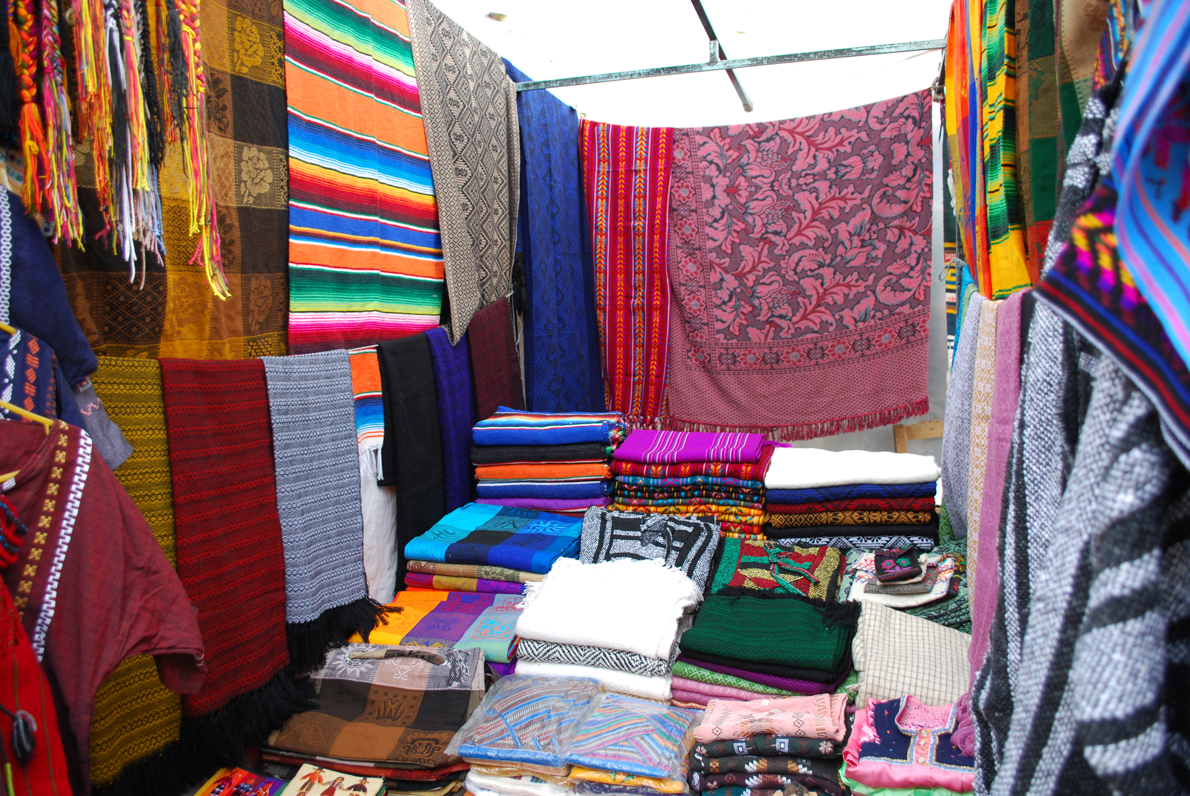 Textile stall in the atrium of Santo Domingo in San Cristobal de las Casas, Chiapas, Mexico